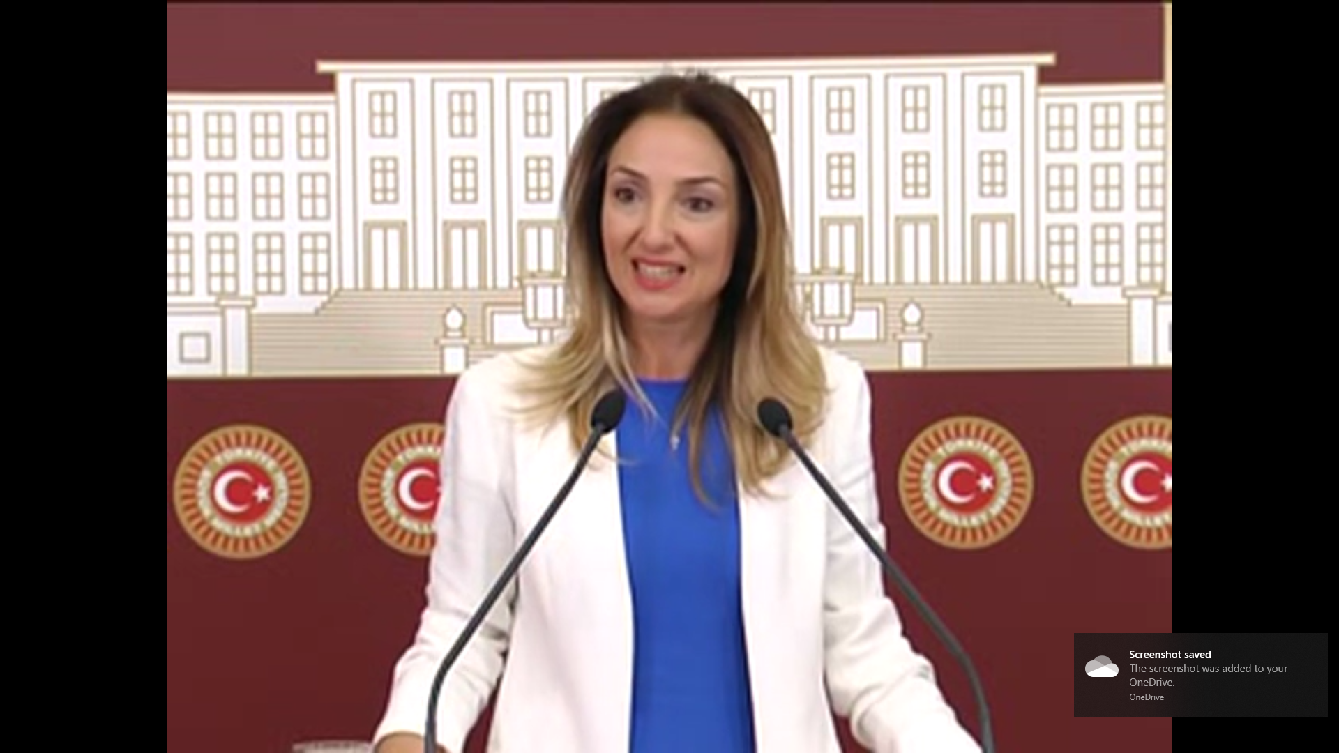 Aylin Nazliaka, a legislator from Ankara, delivers a press release on July 7, 2013. Screenshot of a video. Uploaded onto Vimeo on July 12, 2013.